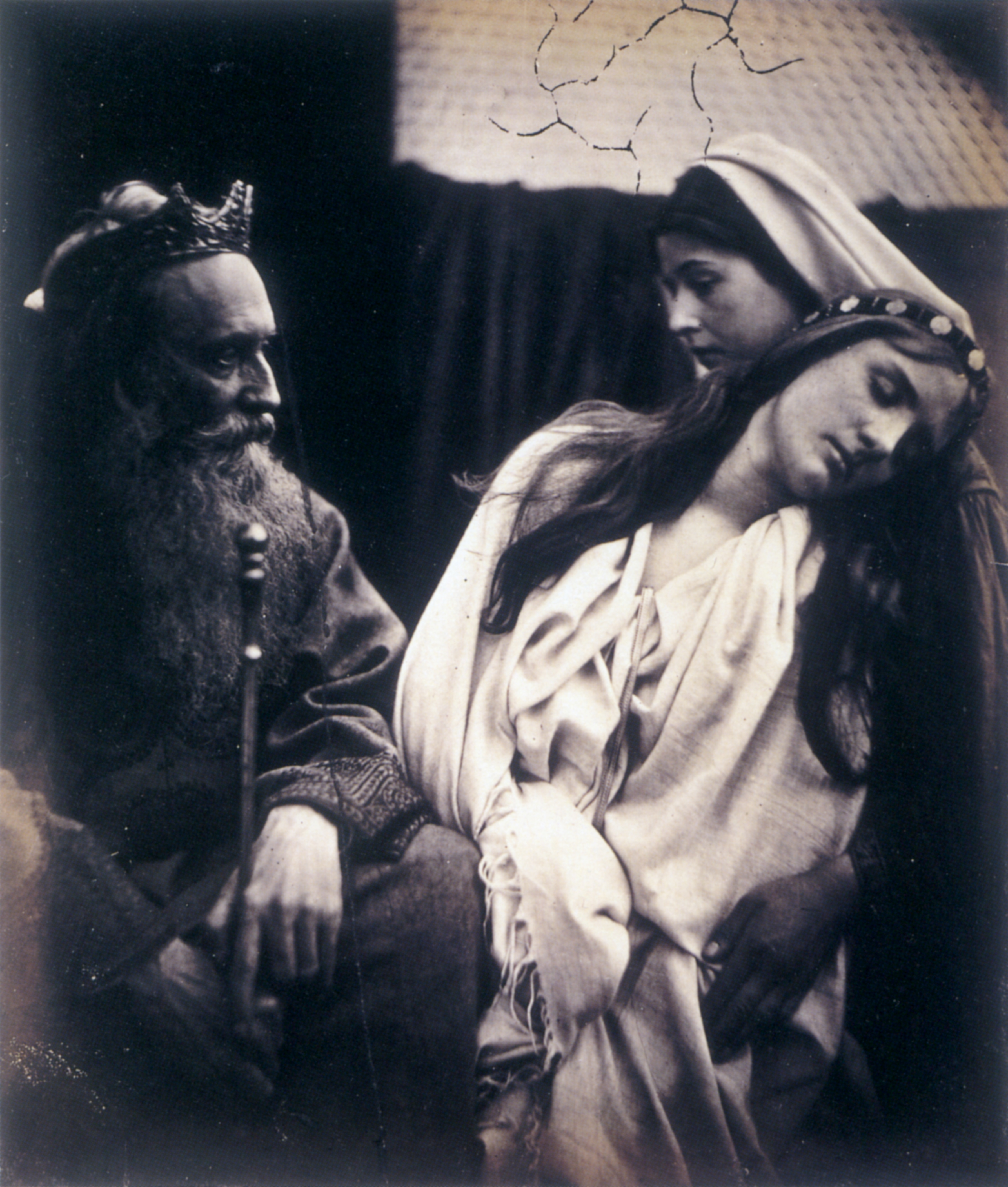 King Ahasuerus & Queen Esther in Apocrypha. Sitters are Sir Henry Taylor, Mary Ryan and Mary Kellaway. Albumen print, 317 x 271mm (12 1/2 x 10 5/8").